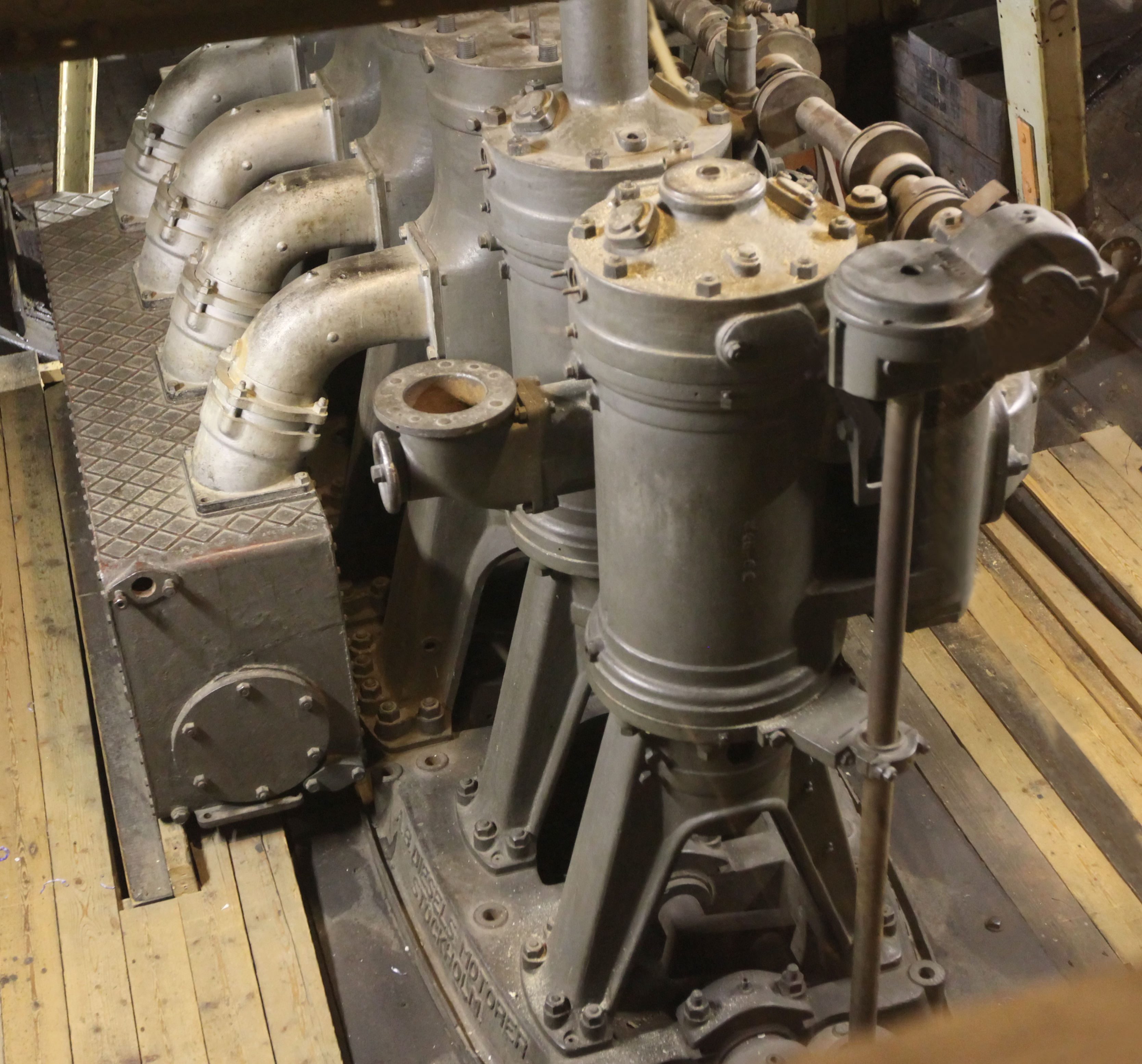 Diesel engine inside of the Fram 1910-1912 at the Fram Museum, Oslo, Norway.